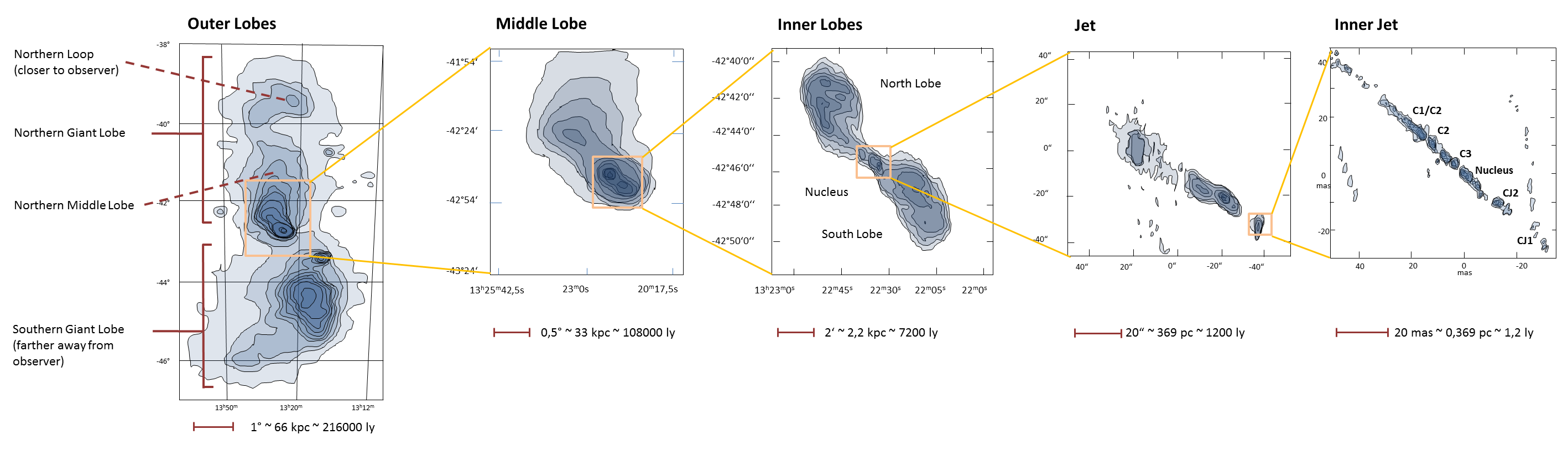 Overview over the radio structure of Centaurus A.# First picture shows the overall radio emission of Centaurus A, extending over 2 million light years (assuming distance of 3.8 Mpc)